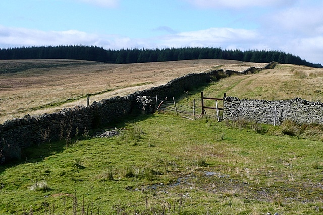 Mynydd Merthyr This is looking along the crest of Mynydd Merthyr from the south-east, this particular section called Pen Rhiwporthmon. The square extends for another 100 metres or so and is virtually all grassy sheep moorland. The wall then rises towards the extensive forestry on Mynydd Gethin.